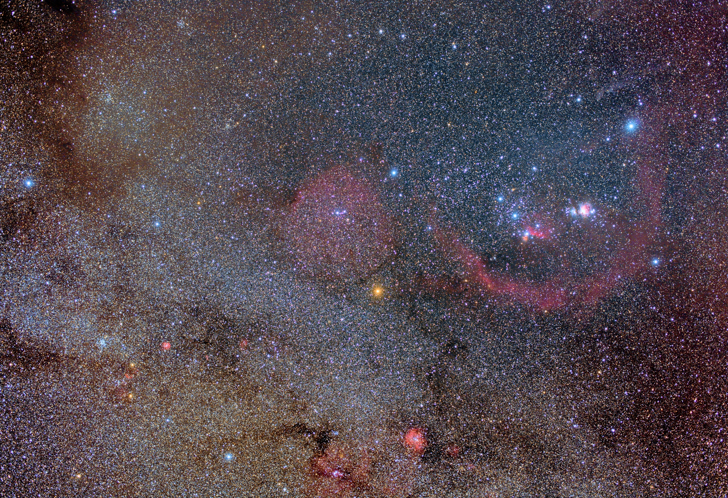 Canon 6D full spectrum, The 40mm f2.8 lens at f4, 54x120 seconds iso1600. Some highlights: Orion nebula, Flame nebula, Horsehead nebula, Witchhead nebula, Rosette nebula, Fox fur nebula, Barnards loop.